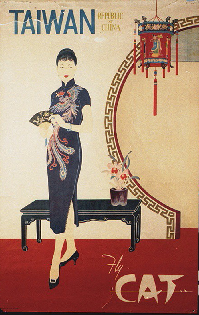 Poster from the Don Thomas Collection. Mr. Thomas was a collector of aircraft memorabilia who donated several posters to the San Diego Air and Space Museum. Repository: San Diego Air and Space Museum Archive